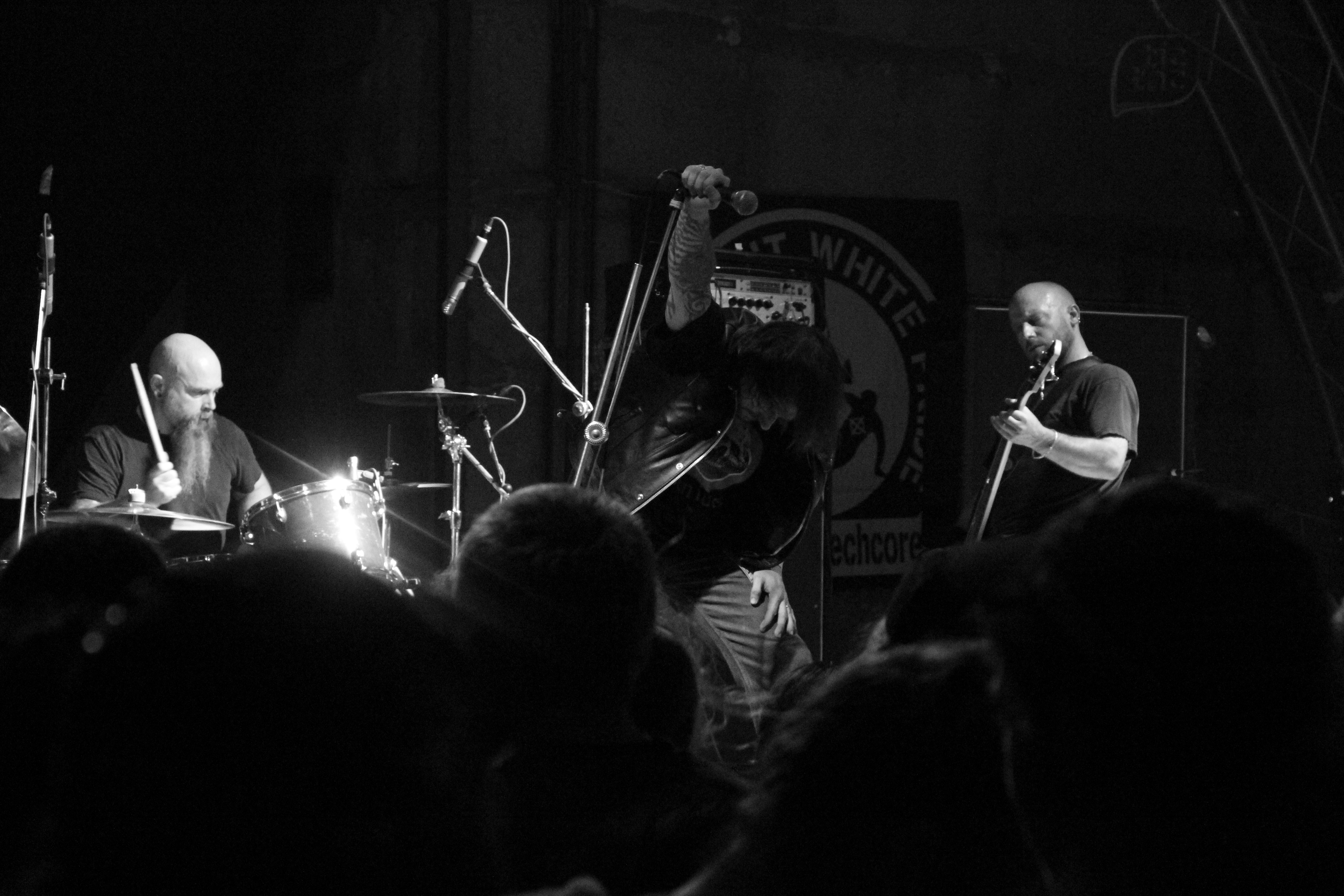 Deviated Instinct live at a concert.